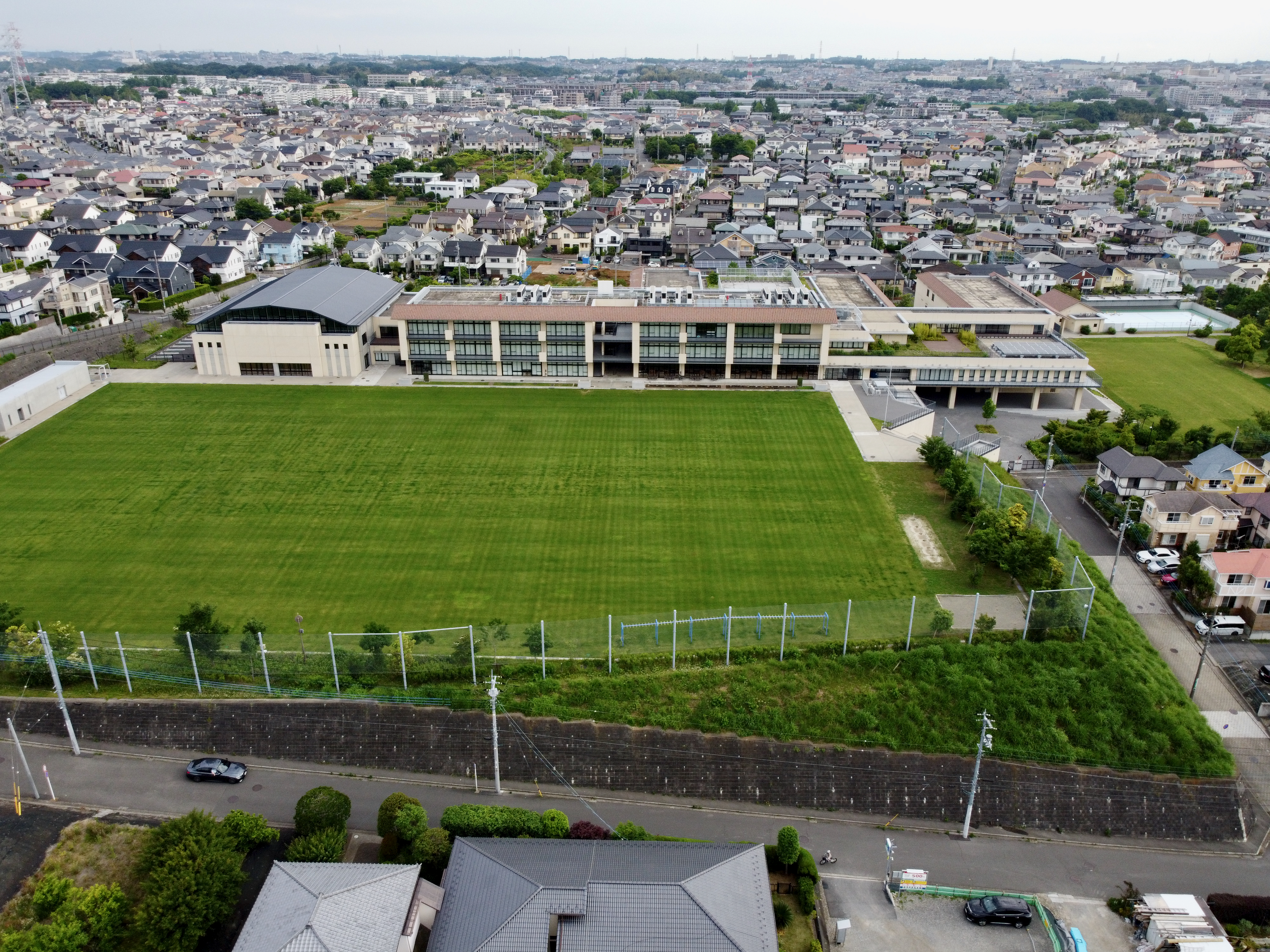 Aerial view of Keio Yokohama Elementary School